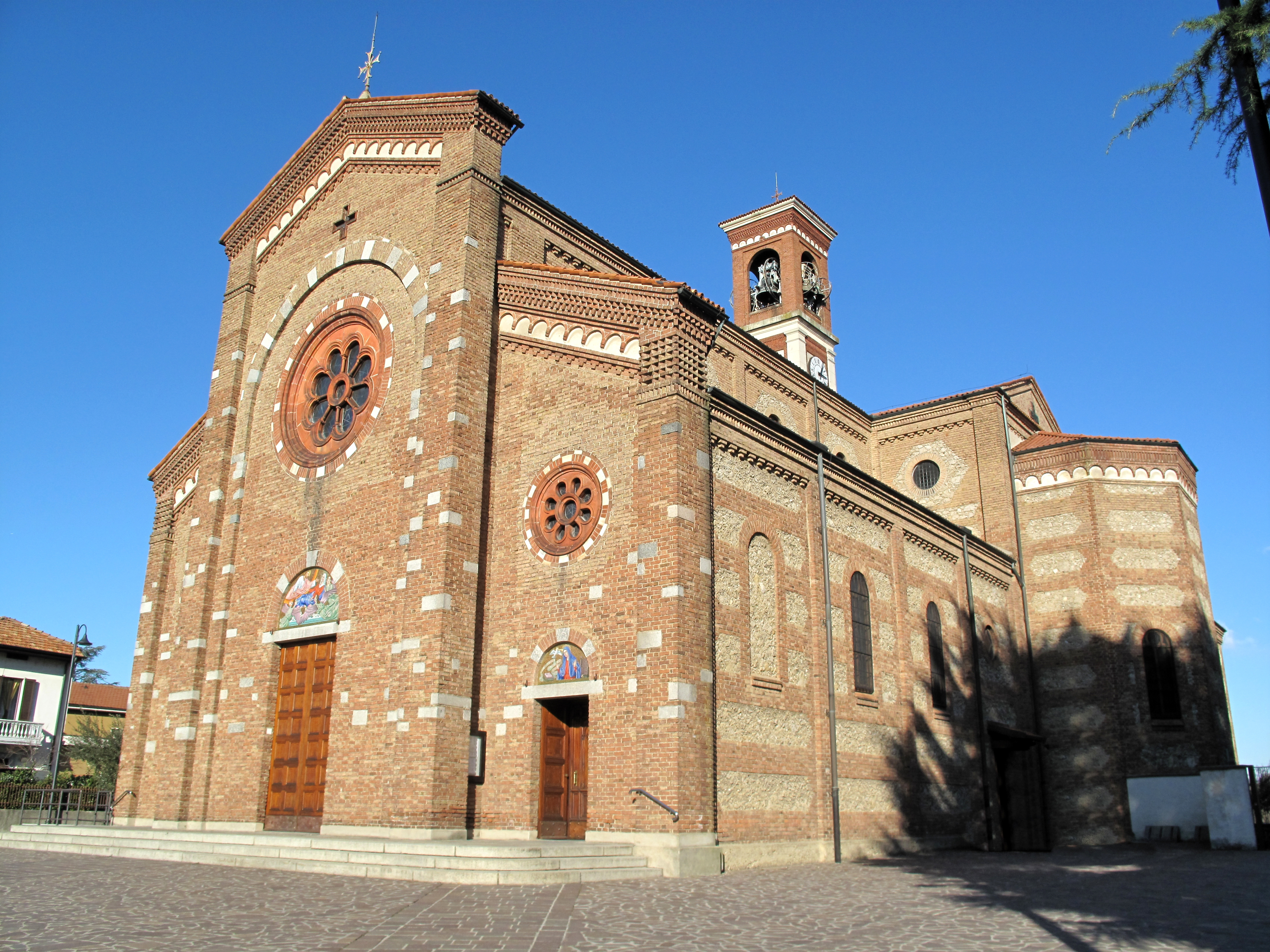 Church of Santa Margherita in Usmate Velate (MI)